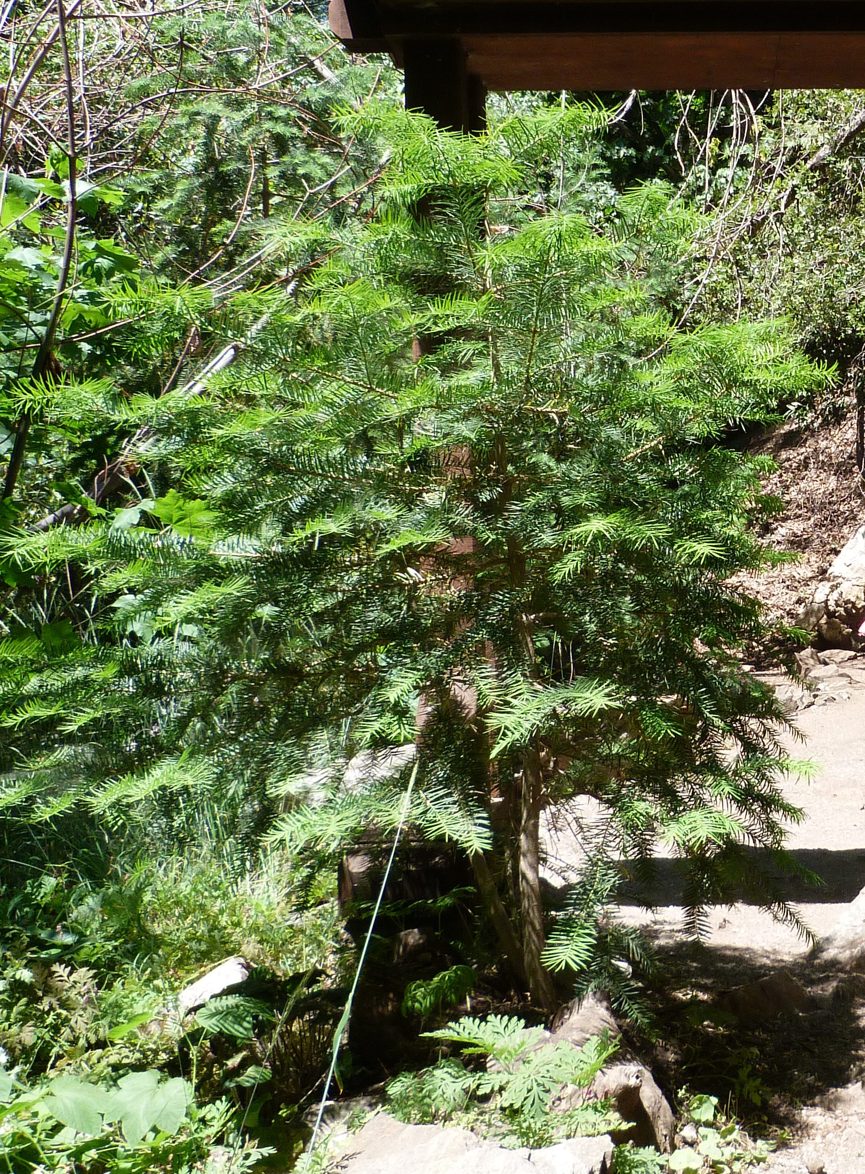 California Torreya Torreya californica, Crystal Cave trail, Sequoia National Park, California, USA.